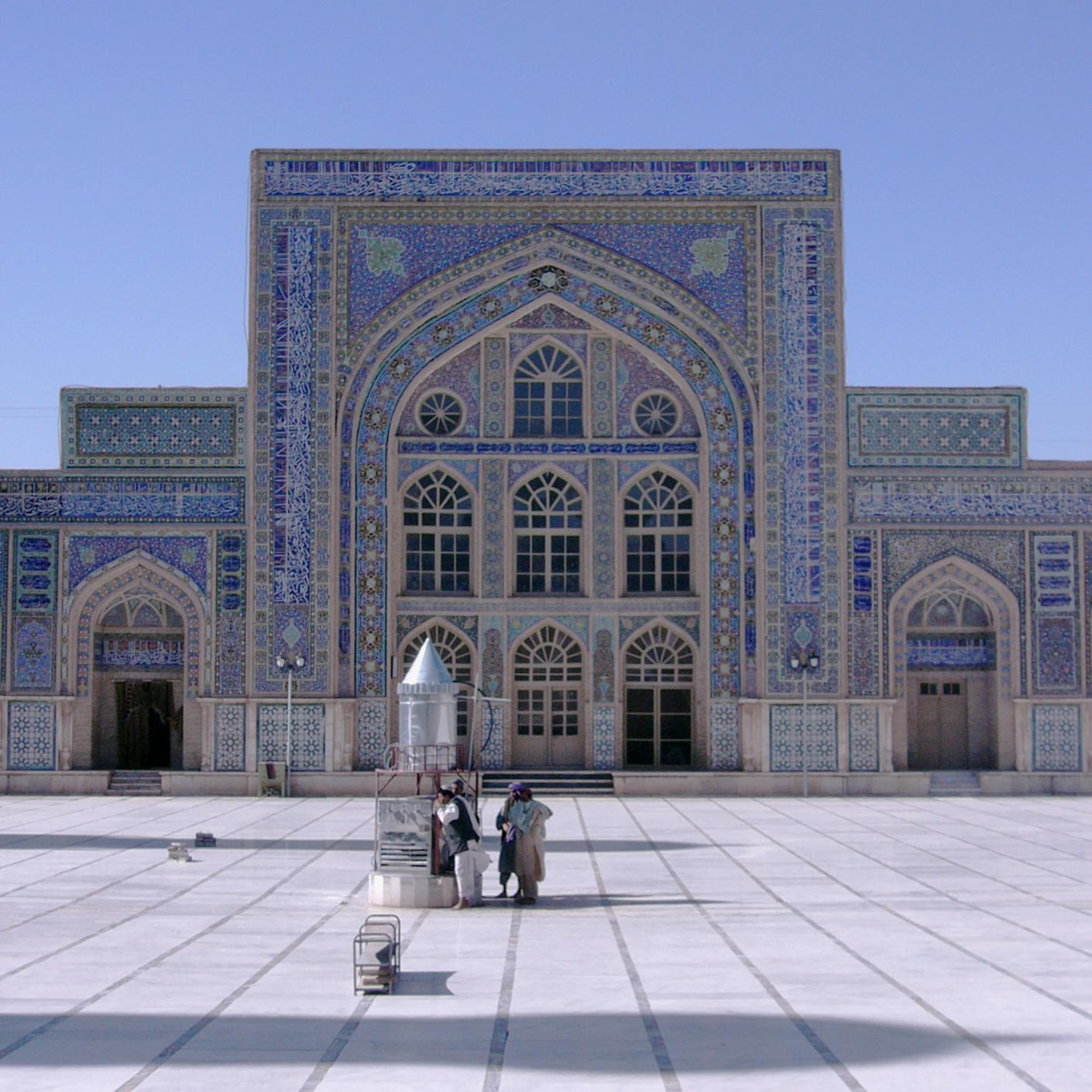 Friday Mosque in Herat, Afghanistan